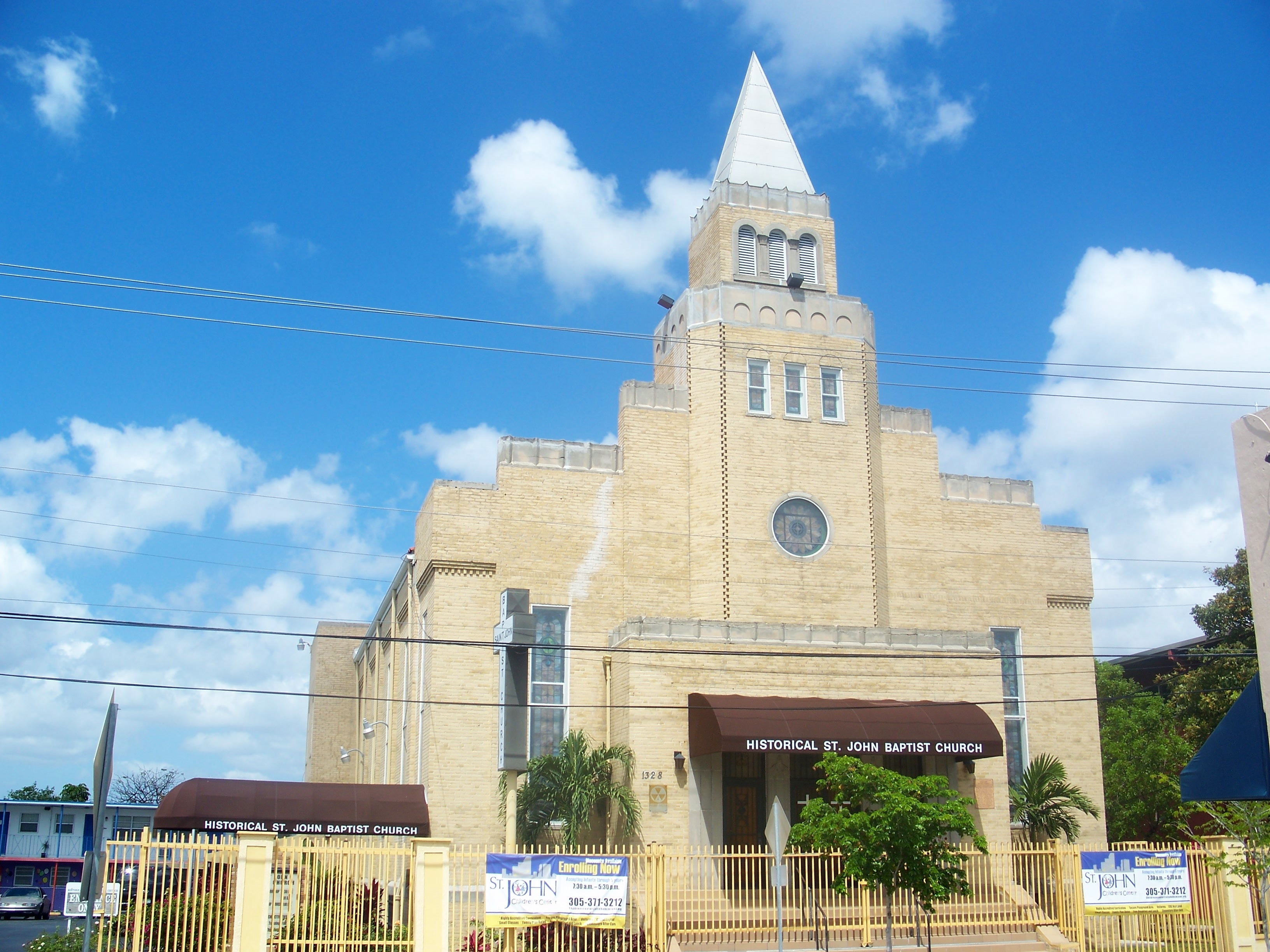 Miami, Florida: Overtown: St. John's Baptist Church